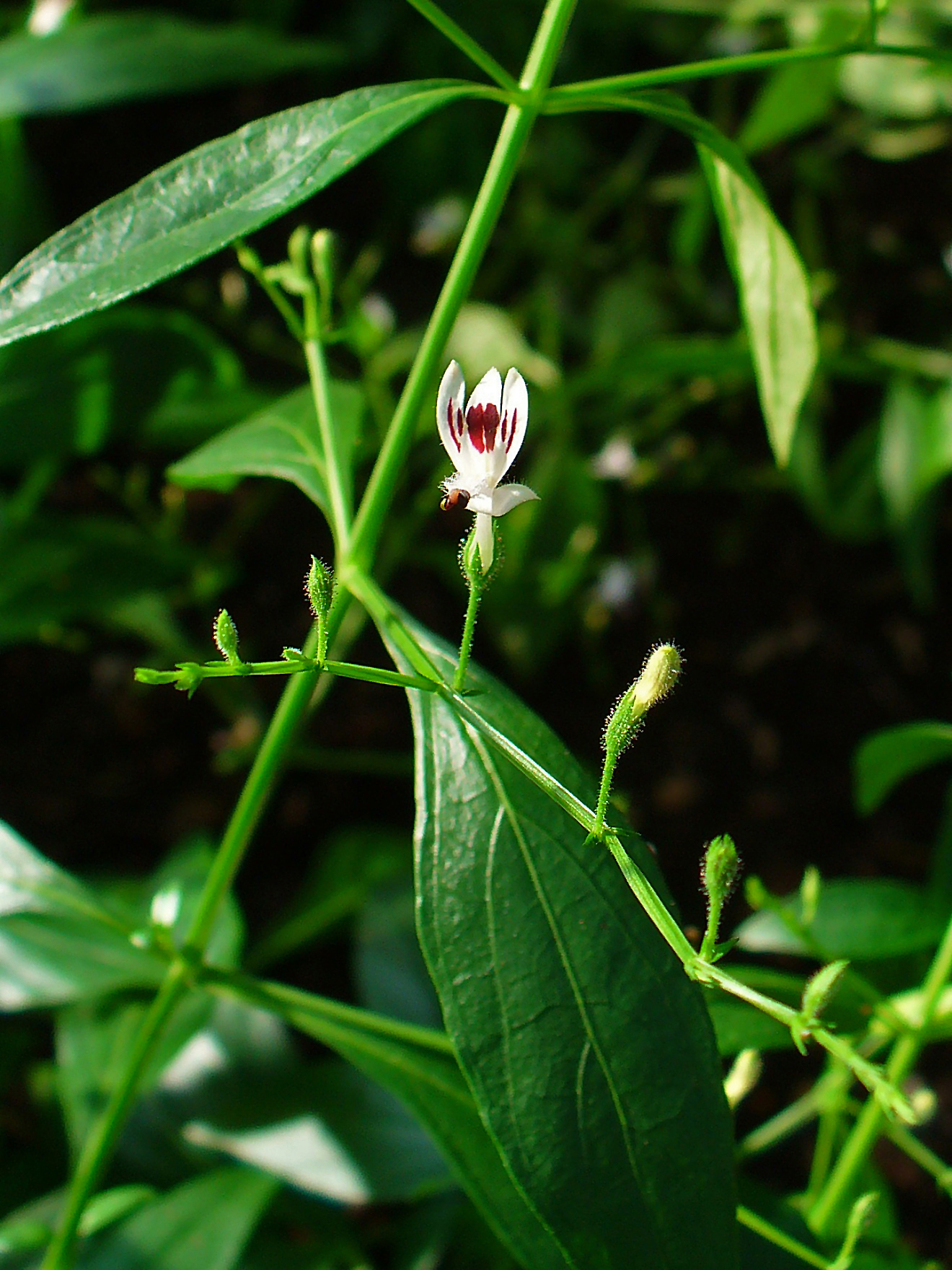 Andrographis paniculata, Acanthaceae, Green Chirayta, Creat, King of Bitters, India Echinacea, inflorescence; Botanical Garden KIT, Karlsruhe, Germany. The plant is used in homeopathy as remedy: Andrographis paniculata (Androg.)